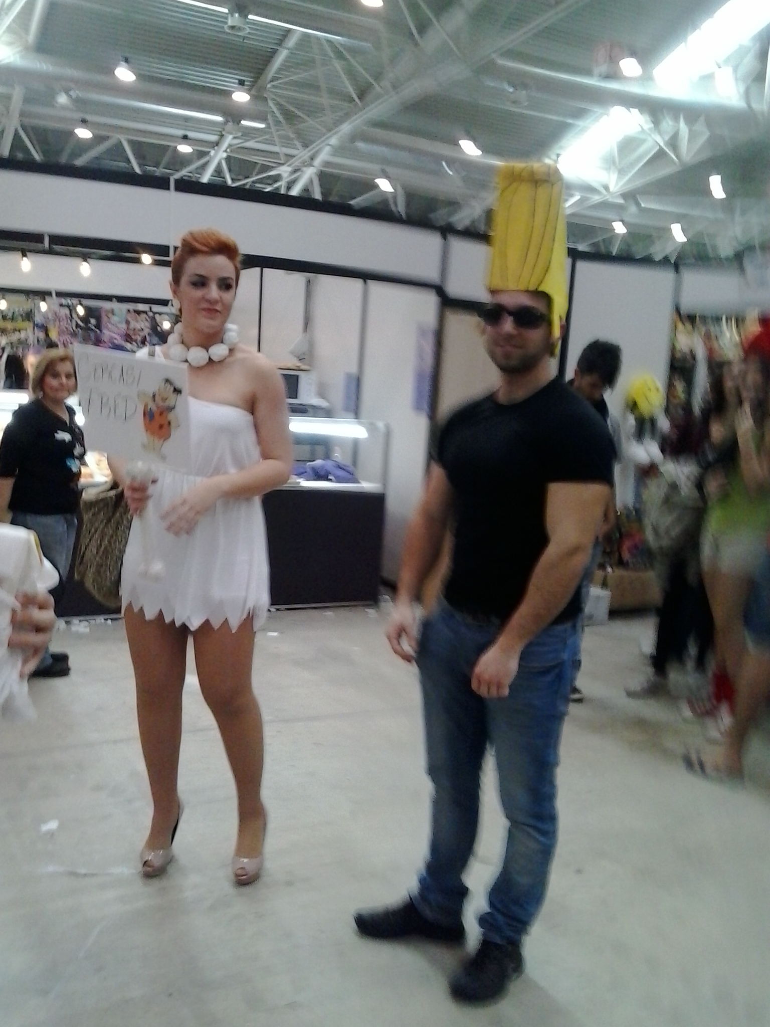 Romics 2013 - Spring Edition